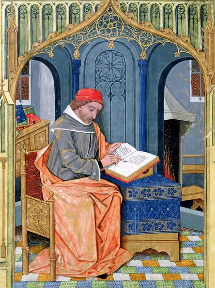 Portrait of Matthaeus Platearius d.c.1161 writing "The Book of Simple Medicines", c.1470